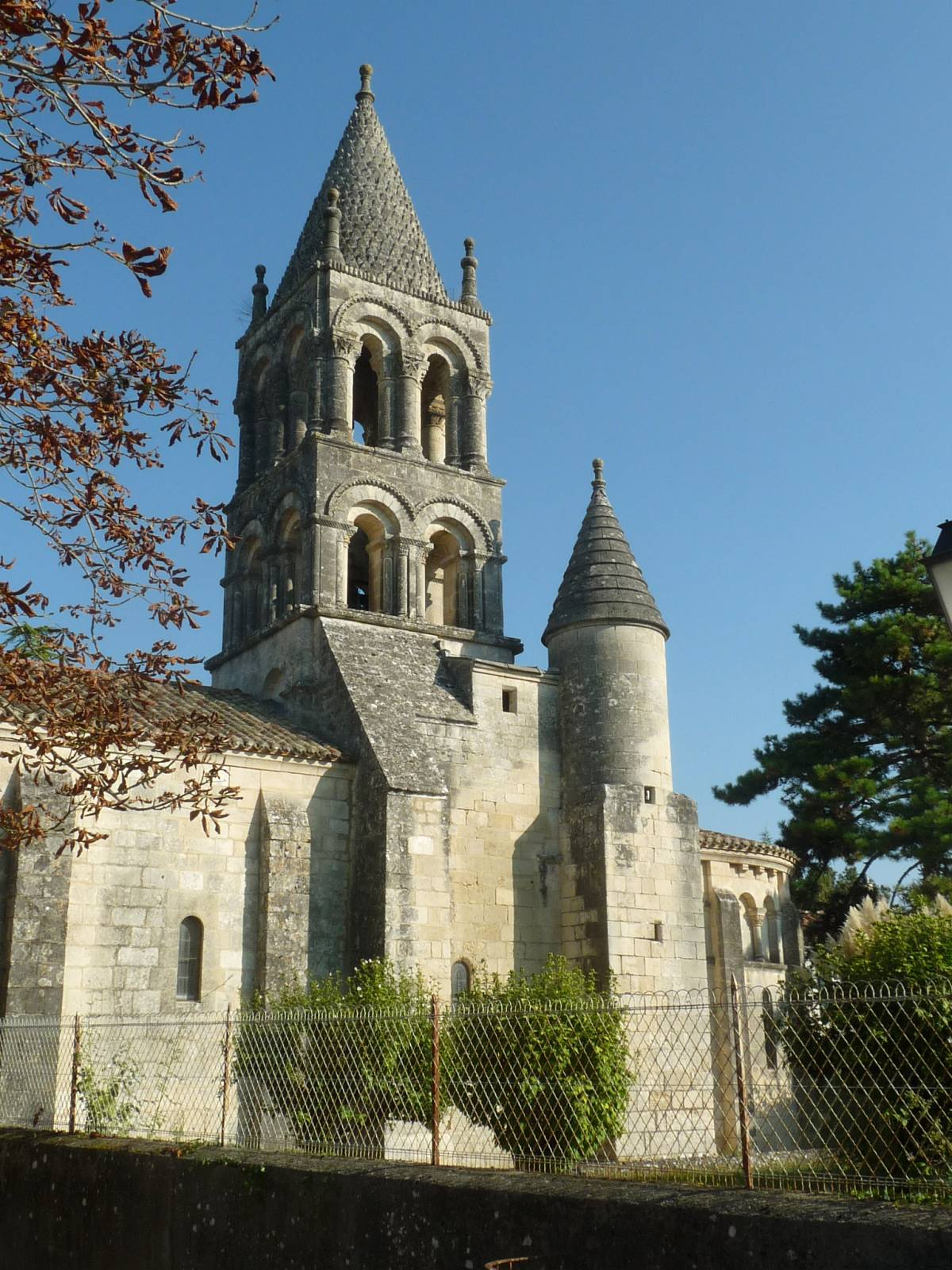 romanesque church of Trois-Palis, Charente, SW France